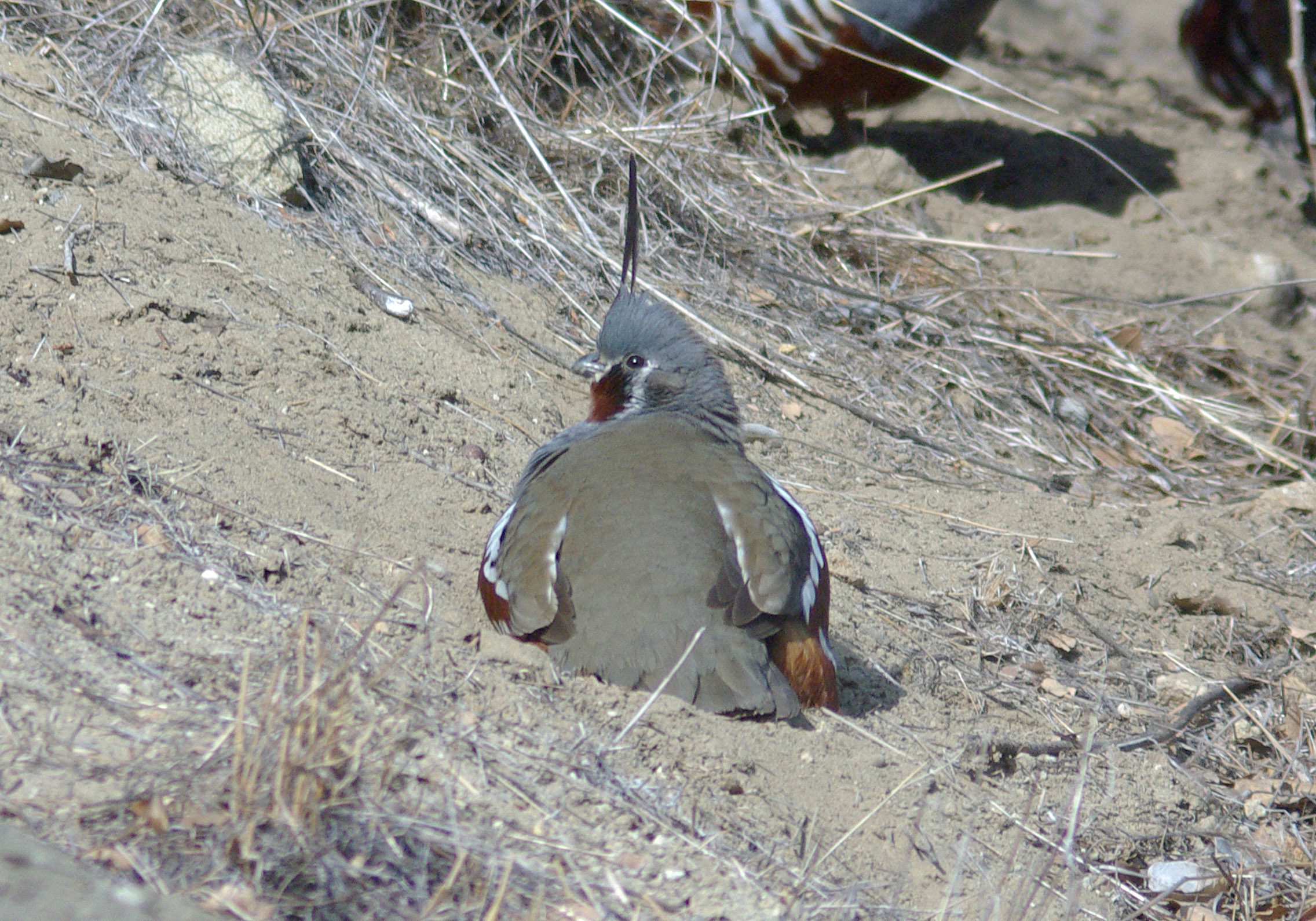 Dust bath!!